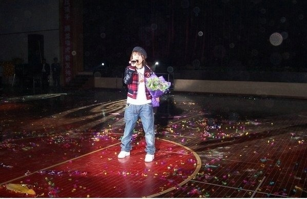 Huang Yali, famous singer, super girls contestant.The photo was made in Ningxiang county Forth Senior High School.